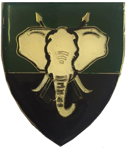 15 SAI shoulder flash